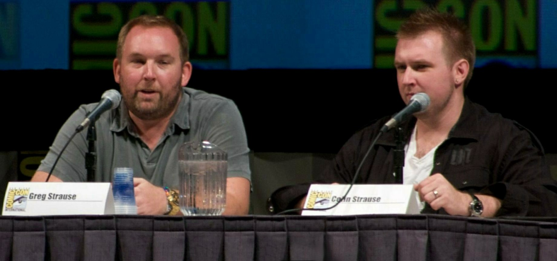 "Skyline" Panel. Directors/writers Greg Strause and Colin Strause at San Diego 2010 Comic-Con International.